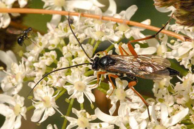 Cryptopimpla caligata from Commanster, Belgian High Ardennes .